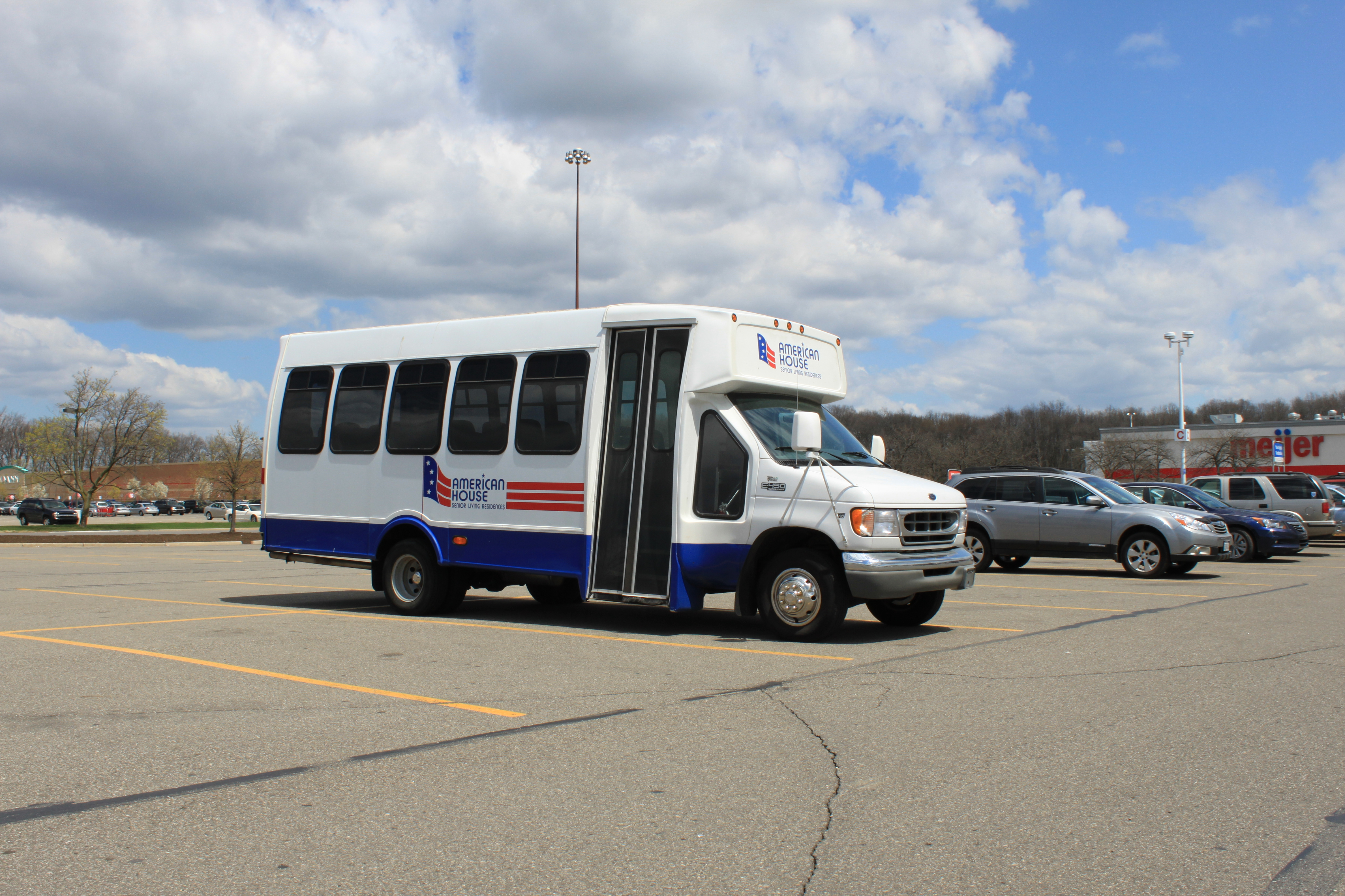 American House Senior Living Ford E-450 Cutaway Van mininus at Meijer Shopping Center, 3825 Carpenter Road, Pittsfield Township, Michigan